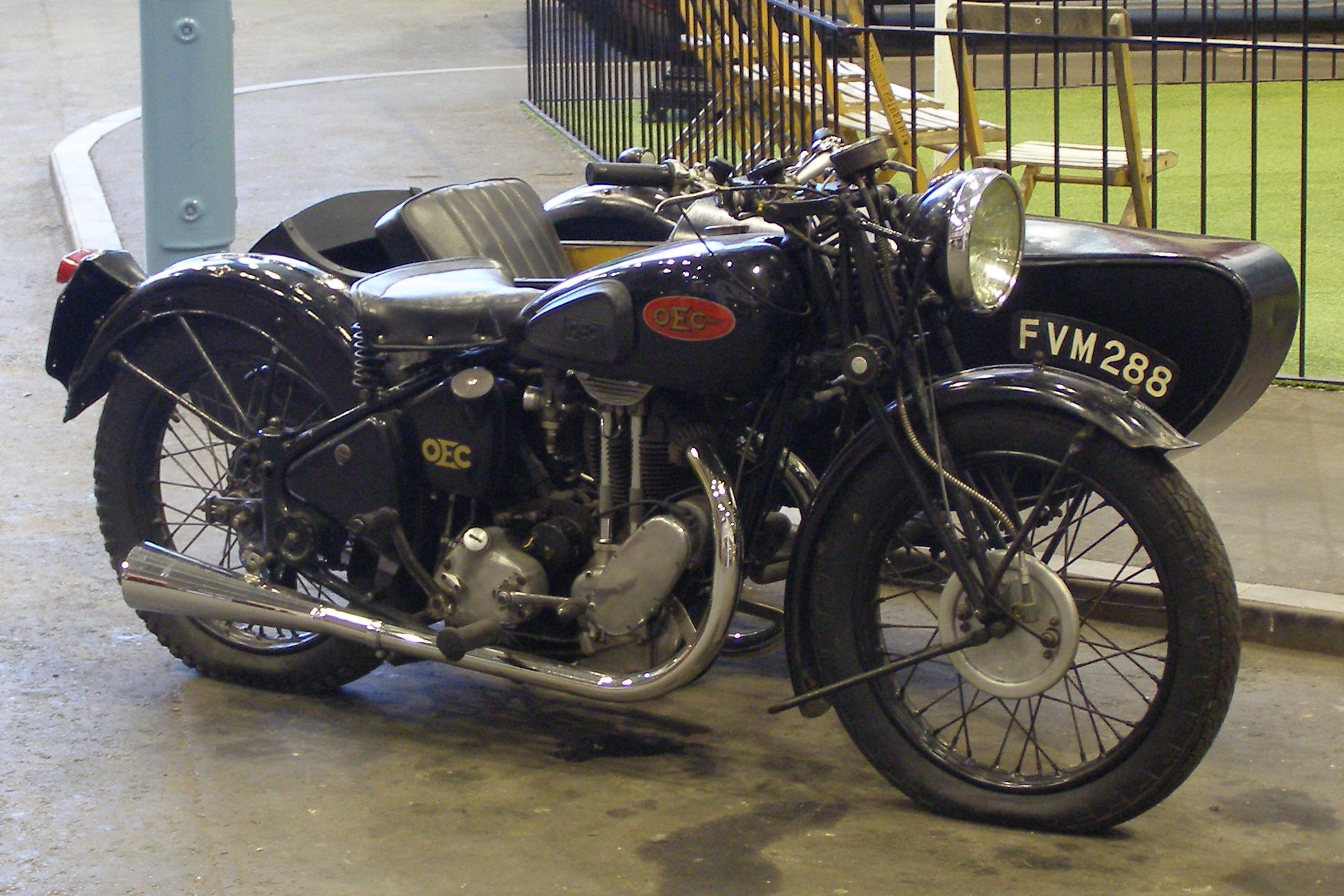 Osborne Engineering Company motorcycle on display at the Milestones Museum Basingstoke, Hampshire